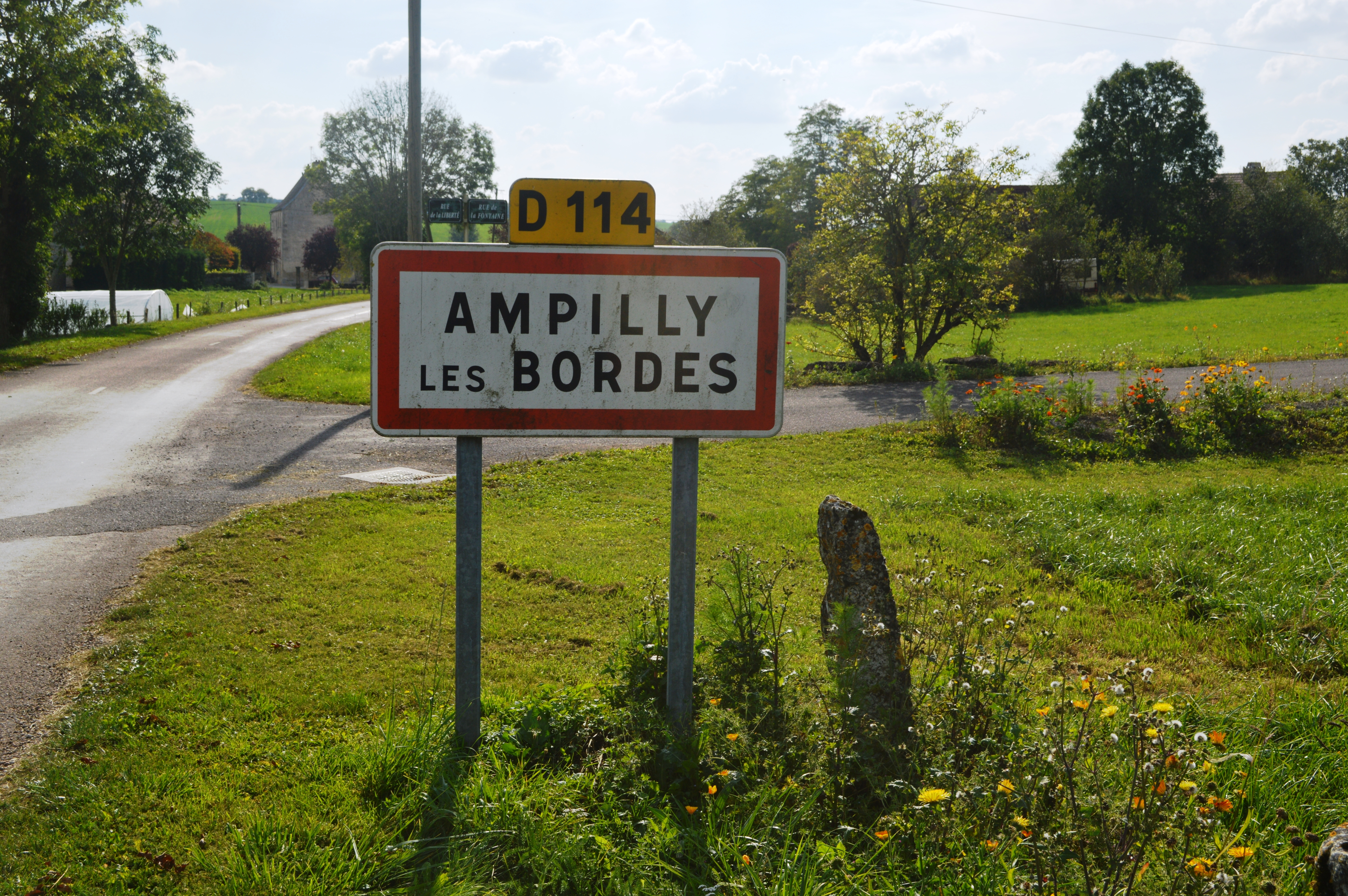 The entry to Ampilly-les-Bordes